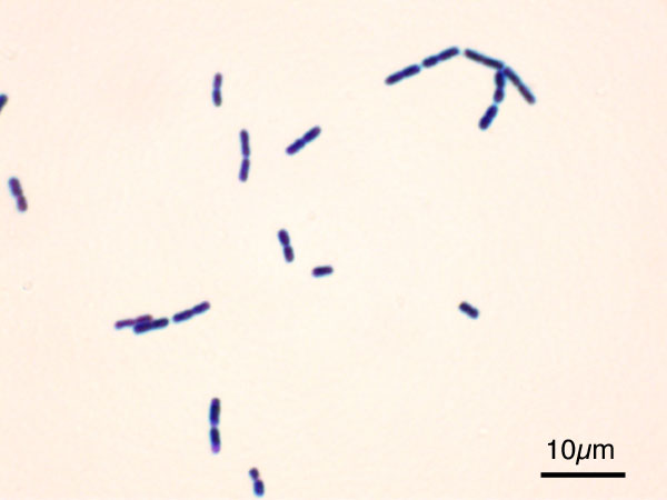 microscopic image of Bacillus cereus (environmental isolate). Gram staining, magnification:1,000